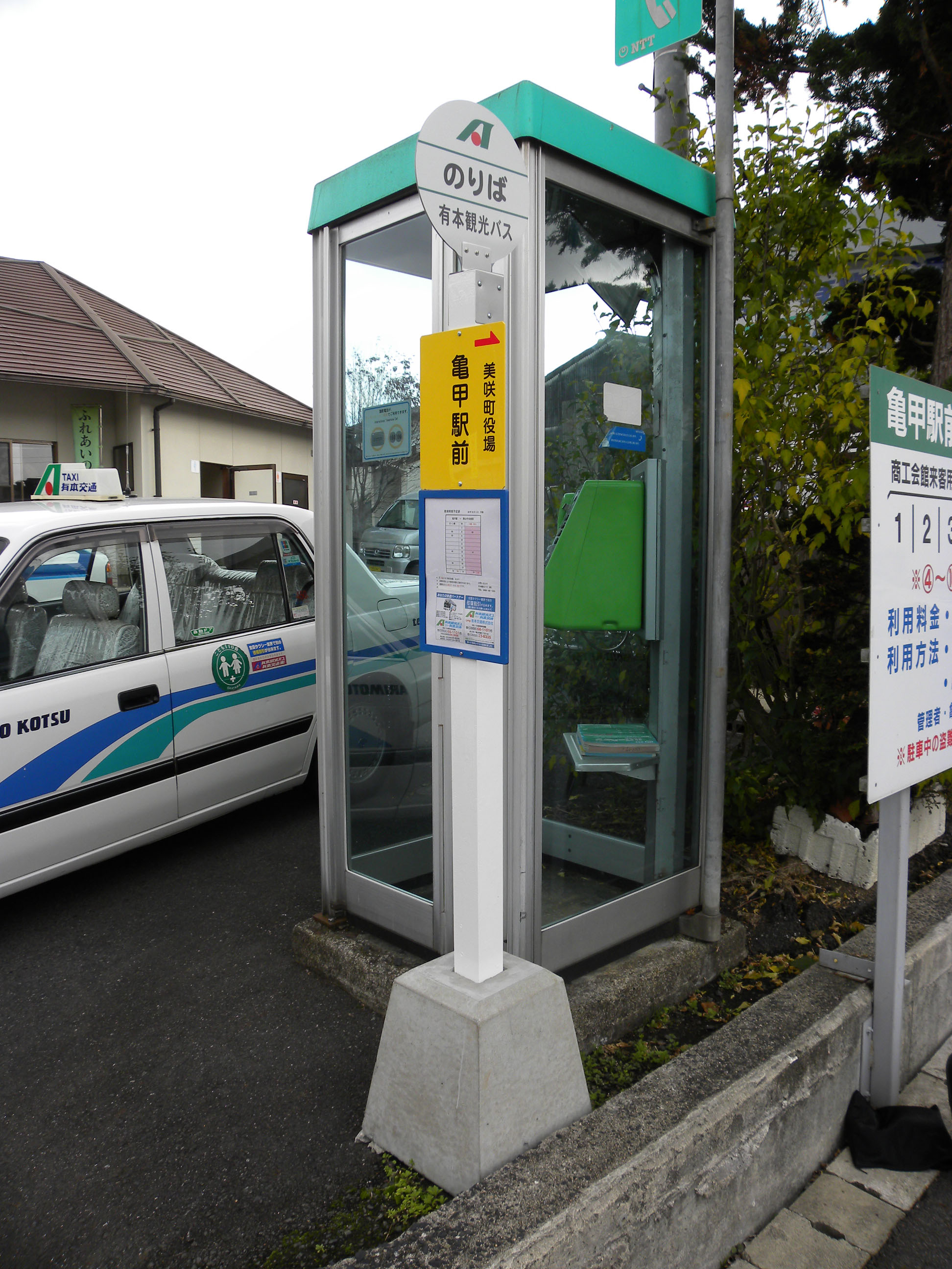 Arimoto Kanko Bus Kamenoko-ekimae (Kamenoko Station) Bus Stop in Misaki Town, Okayama Prefecture, Japan